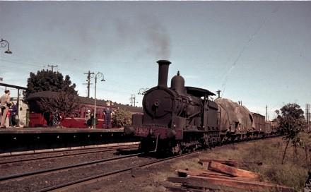 Locomotive 1909 with transfer goods train at Broadmeadow, NSW